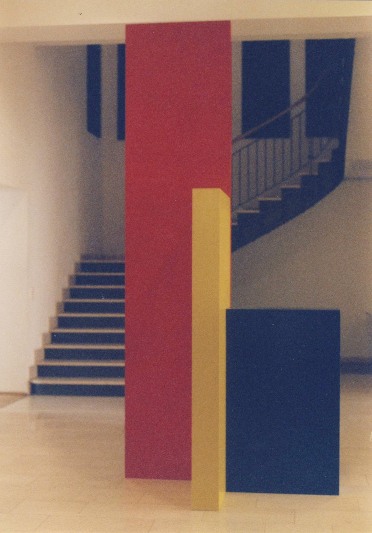 Jo Niemeyer, Skulptur at the Kunsthalle Villa Kobe in Halle, built by Jesus Perez Franco